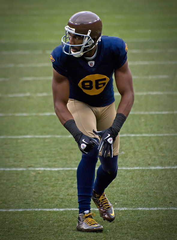 Lambeau Field, December 5, 2010. Photo by Mike Morbeck.